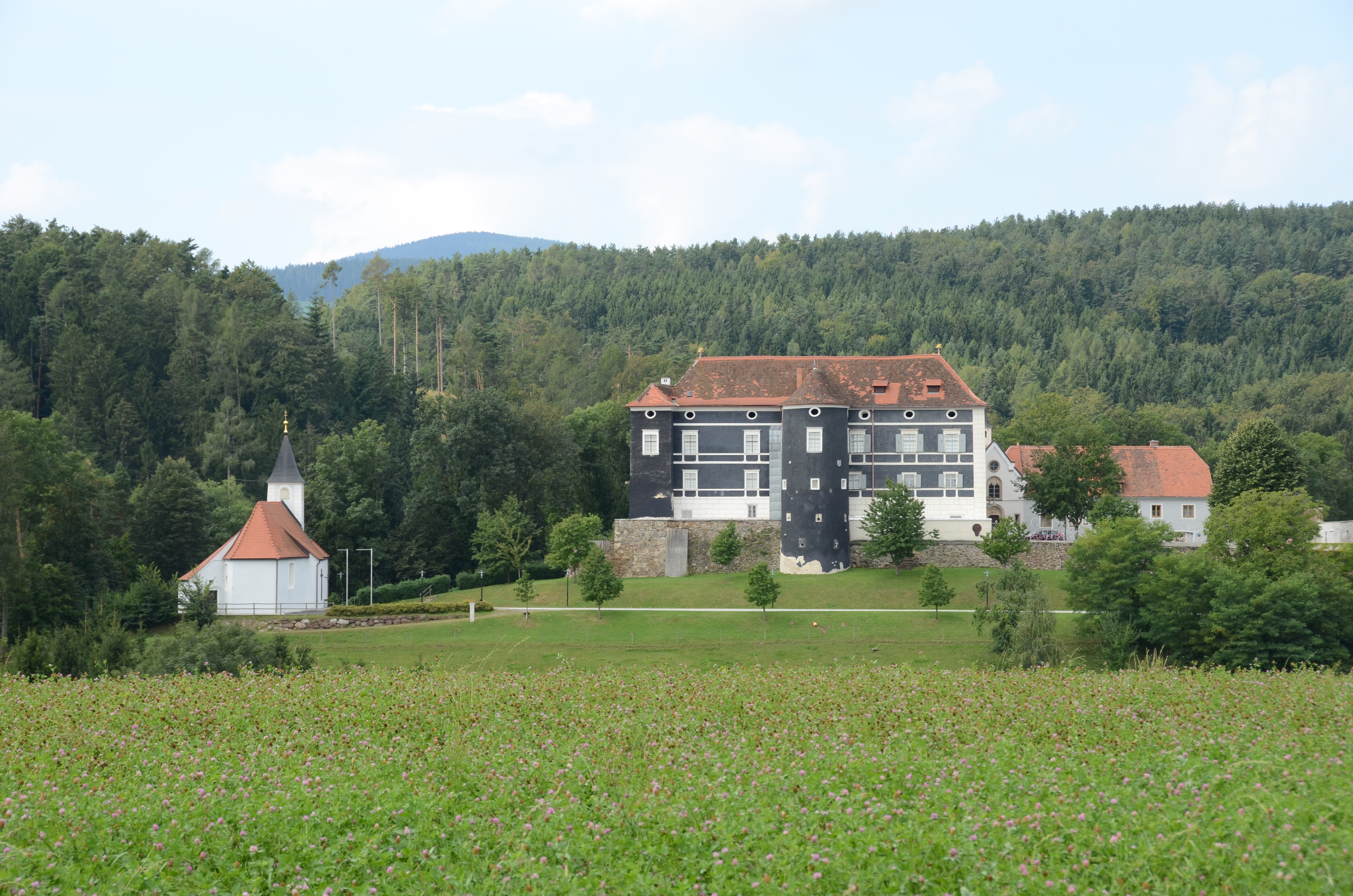 Church and Castle Aichberg in Eichberg, Styria.